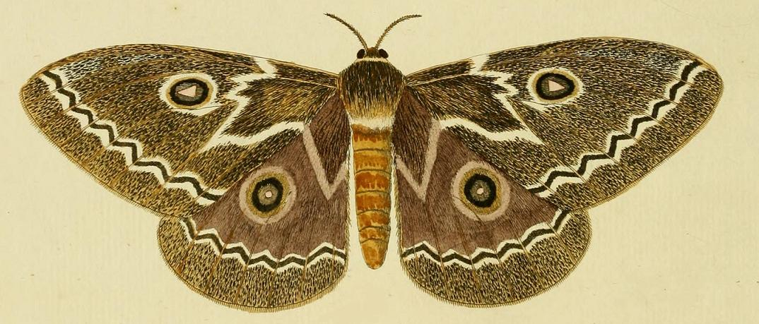 Plate XLVI A: "(Phalaena) Tyrrhea" ( = maybe Gonimbrasia tyrrhea, iconotype?), see The Global Lepidoptera Names Index